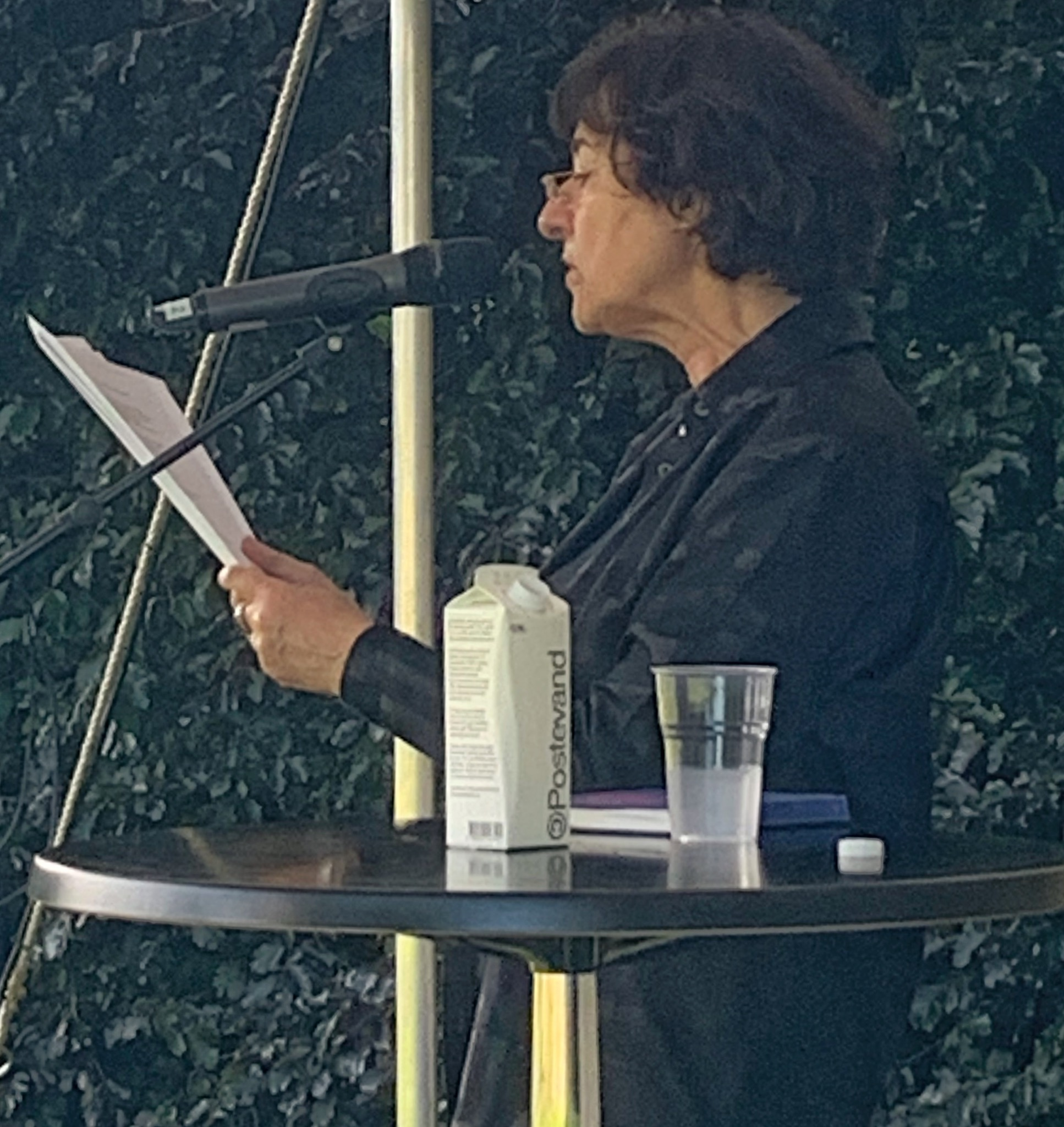 Pia Tafdrup reading at Louisiana Museum of Modern Art